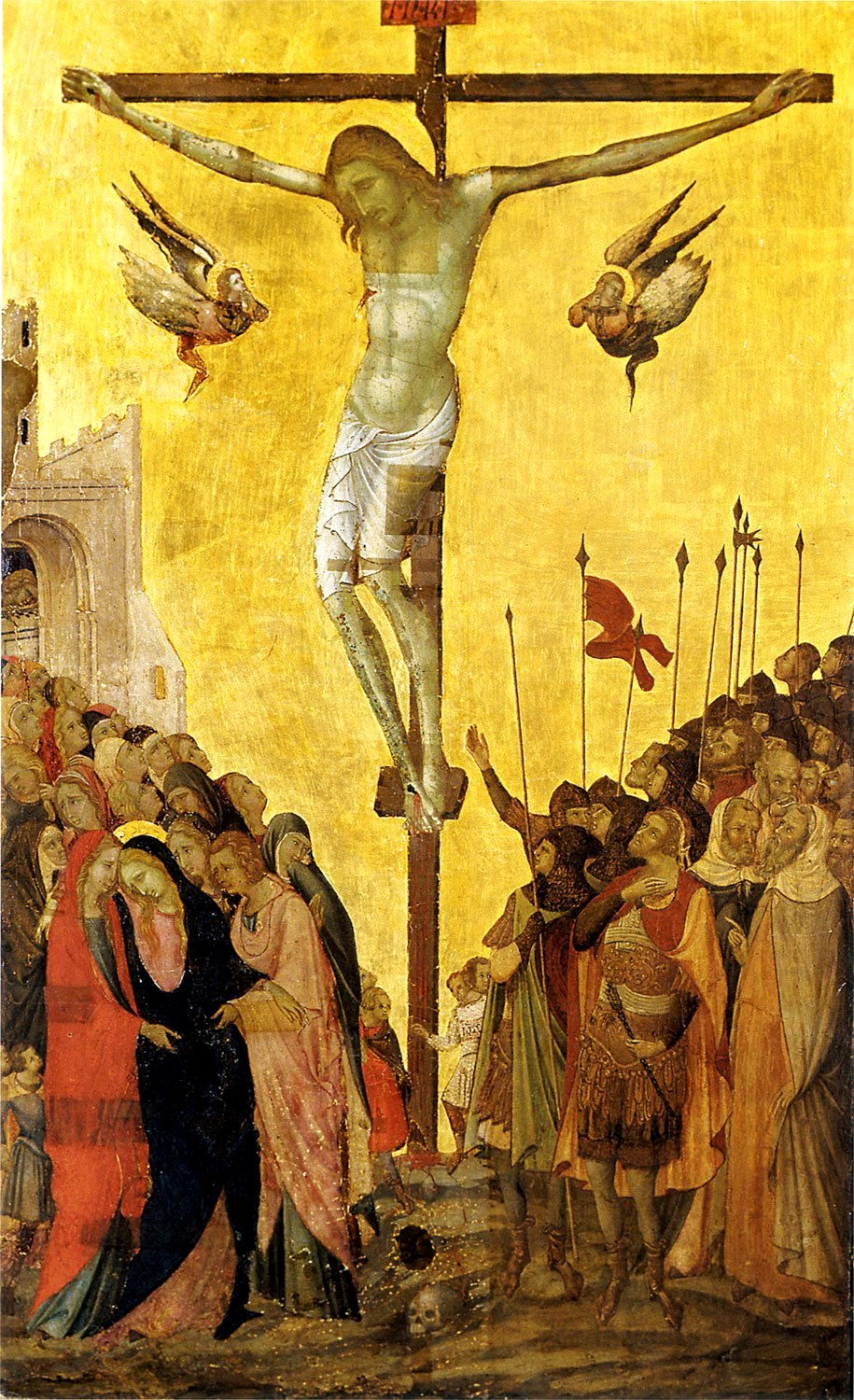 Crusifixion. Bartolomeo Bulgarini. after 1330 Hermitage, Sanct Peterburg